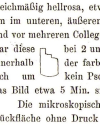 Line drawing by Wilhelm Friedrich Kühne of the only "human optogram", an image from the retina of executed prisoner Erhard Gustav Reif. Kühne's original 4 millimetre image of the optogram no longer exists, except for this line drawing from his 1881 paper Observations for Anatomy and Physiology of the Retina.